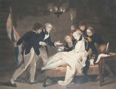 Death of Captain Alexander Hood 1798